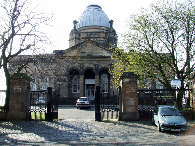 John Neilson Institution A former school, Bequeathed to the town by John Neilson, a local grocer. Designed by Charles Wilson and opened in 1852. Last used as a school in 1968. Now converted to flats. See also 386210.